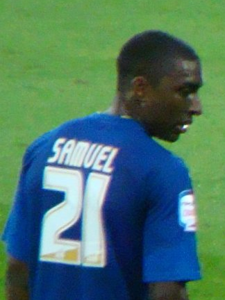 Jlloyd Samuel. Image cropped from original at flickr.